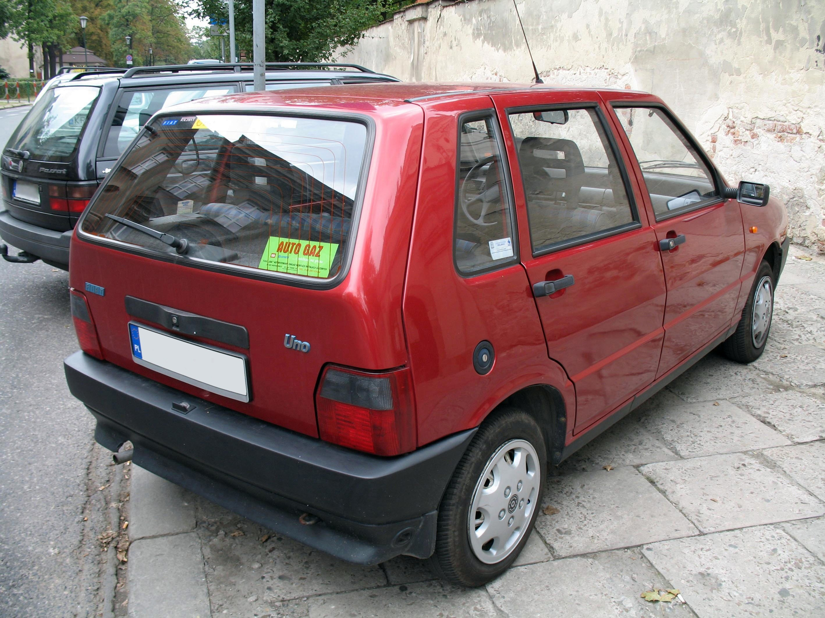 Fiat Uno II car (rear) in Kraków, Poland. Built in Fiat Auto Poland.